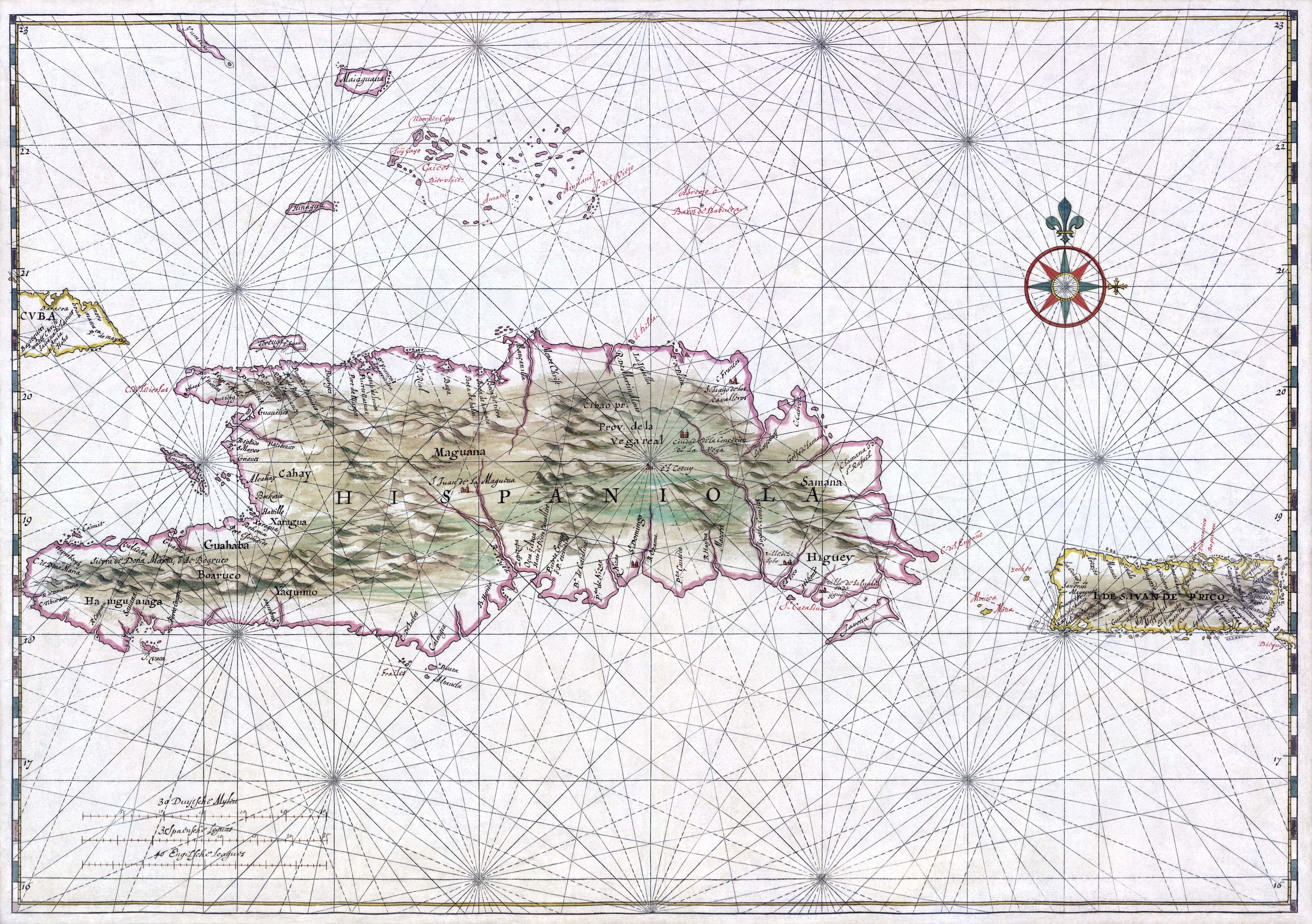 Nautical chart of Hispaniola and Puerto Rico. Ink and watercolor with pictorial relief.